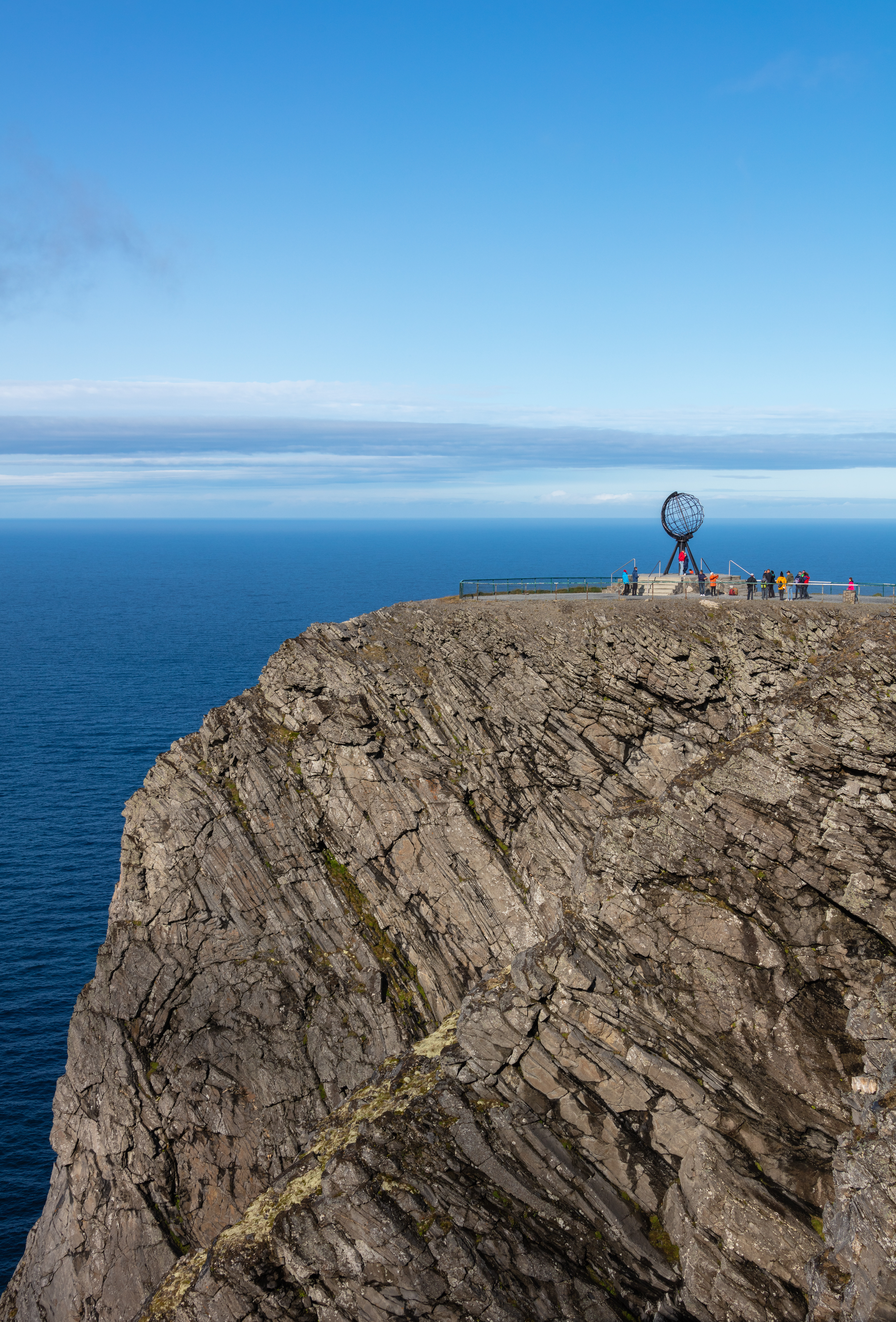 North Cape, Norway